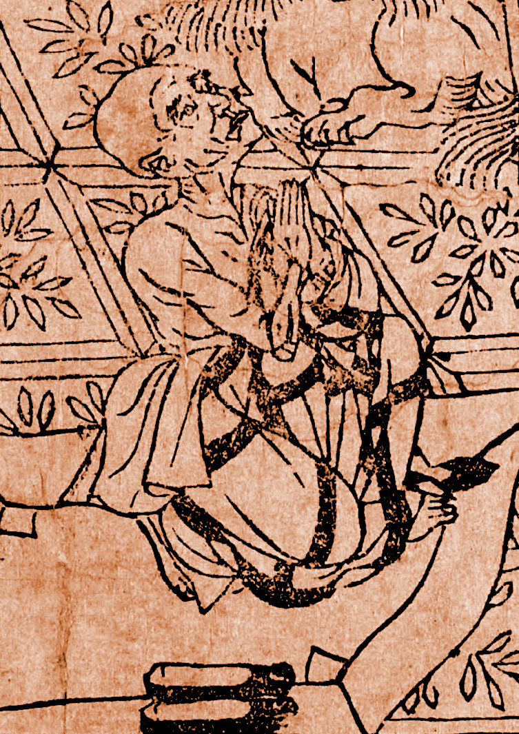 Detail of Elder Subhuti, from the famous Dunhuang Diamond Sutra (Vajracchedikā Prajñāpāramitā Sūtra), the first known printed book. The picture is derived from the second chapter, in which Subhuti asked the Buddha how bodhisattvas can achieve enlightenment. "From the midst of the great multitude, Elder Subhūti arose from his seat, bared his right shoulder, and placed his right knee on the ground. With his hands joined together in respect, he addressed the Buddha..."